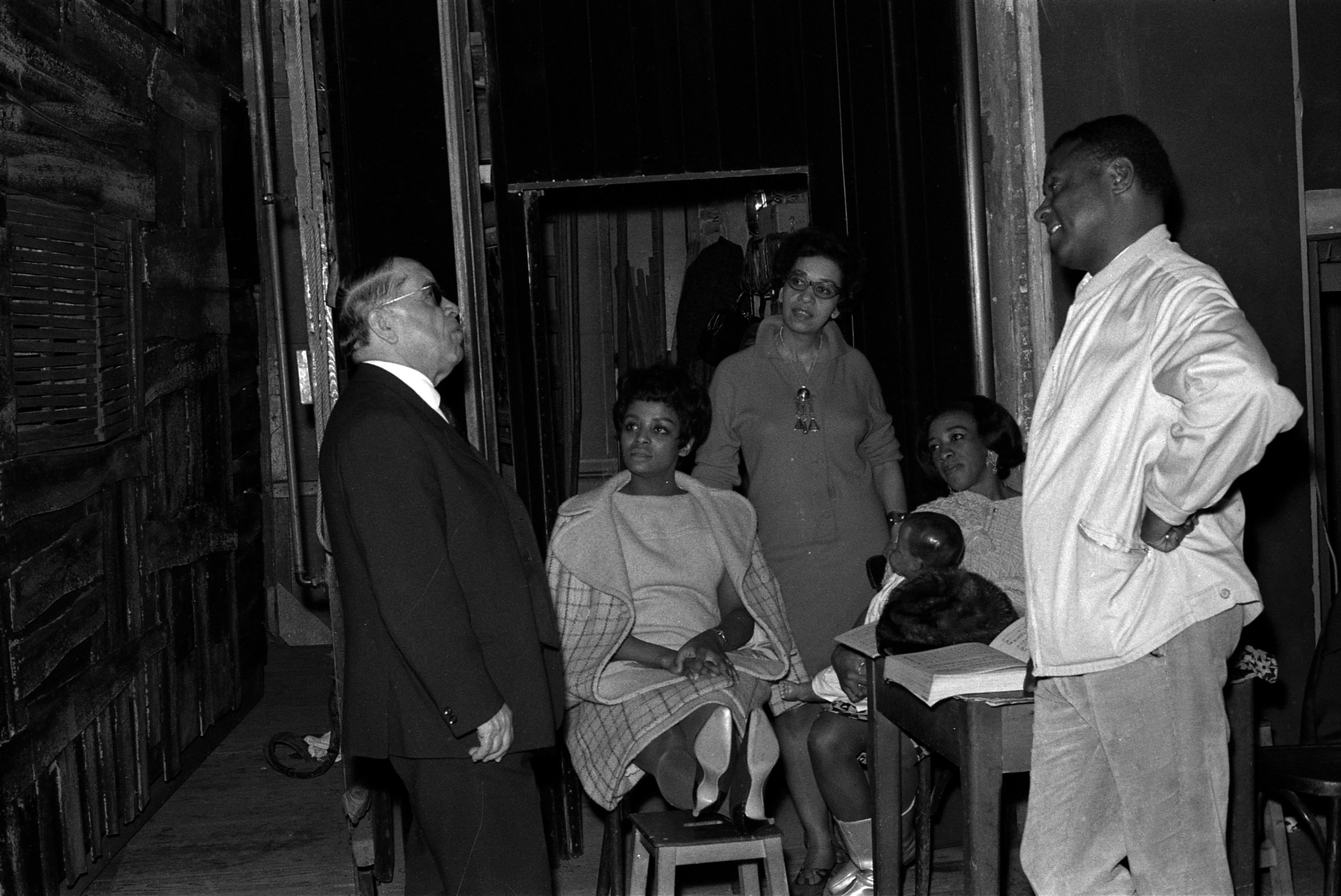 Inside the Capitol Theater. February 23, 1967. Shot of scene, backstage view, from left to right, Mr. Louis Izar (Director General of the Capitole Theater), seated on a stool legs singer Olive Moorefield, standing behind Singer Elaine Baker, sitting a plastic doll on the knees the singer Miriam Burton and standing singer William Rey. Observation: Repetition, at the Capitole Theater of the American opera "Porgy and Bess", Music by geoge Gershwin, on the occasion of the 30th anniversary of his death.